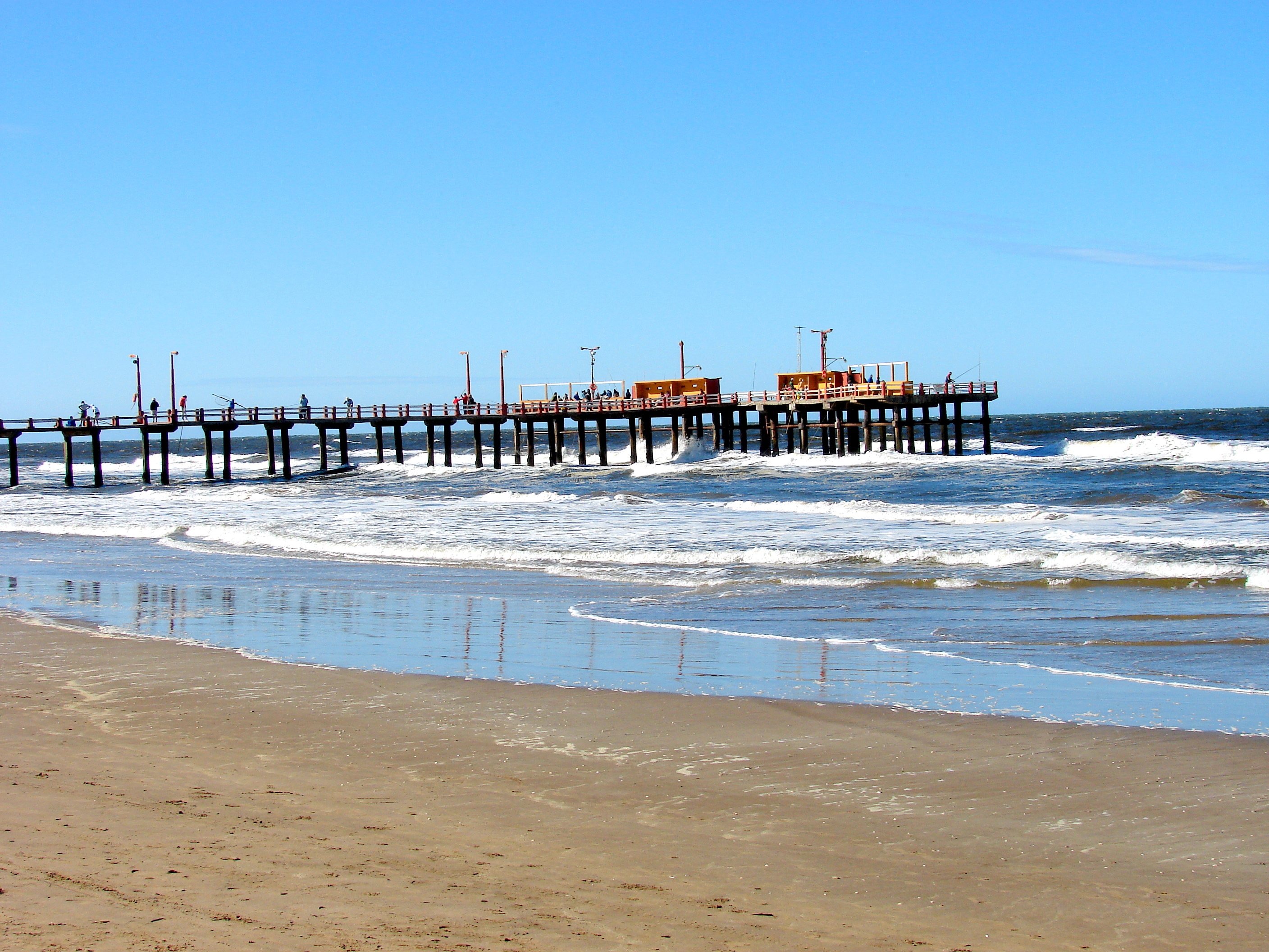 Muelle Santa Teresita